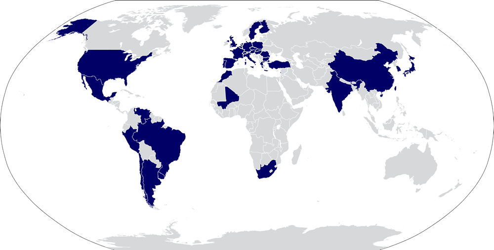 International presence of the company Edenred